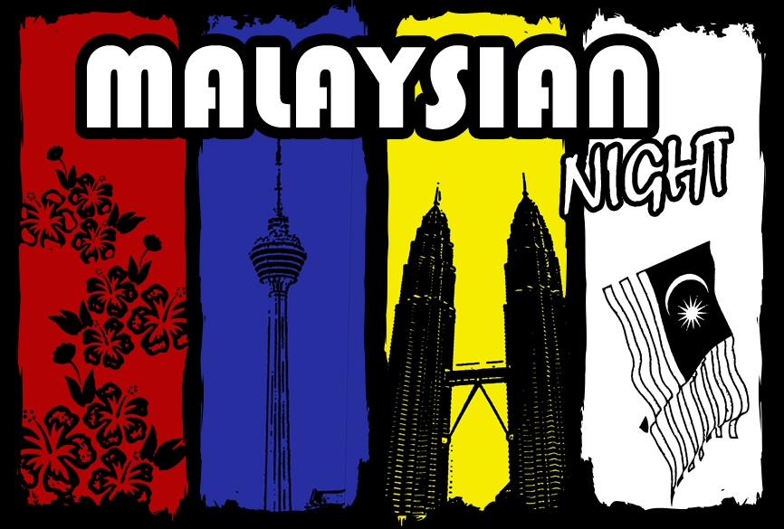 Used for Malaysian Night for University of Strathclyde in February 2012